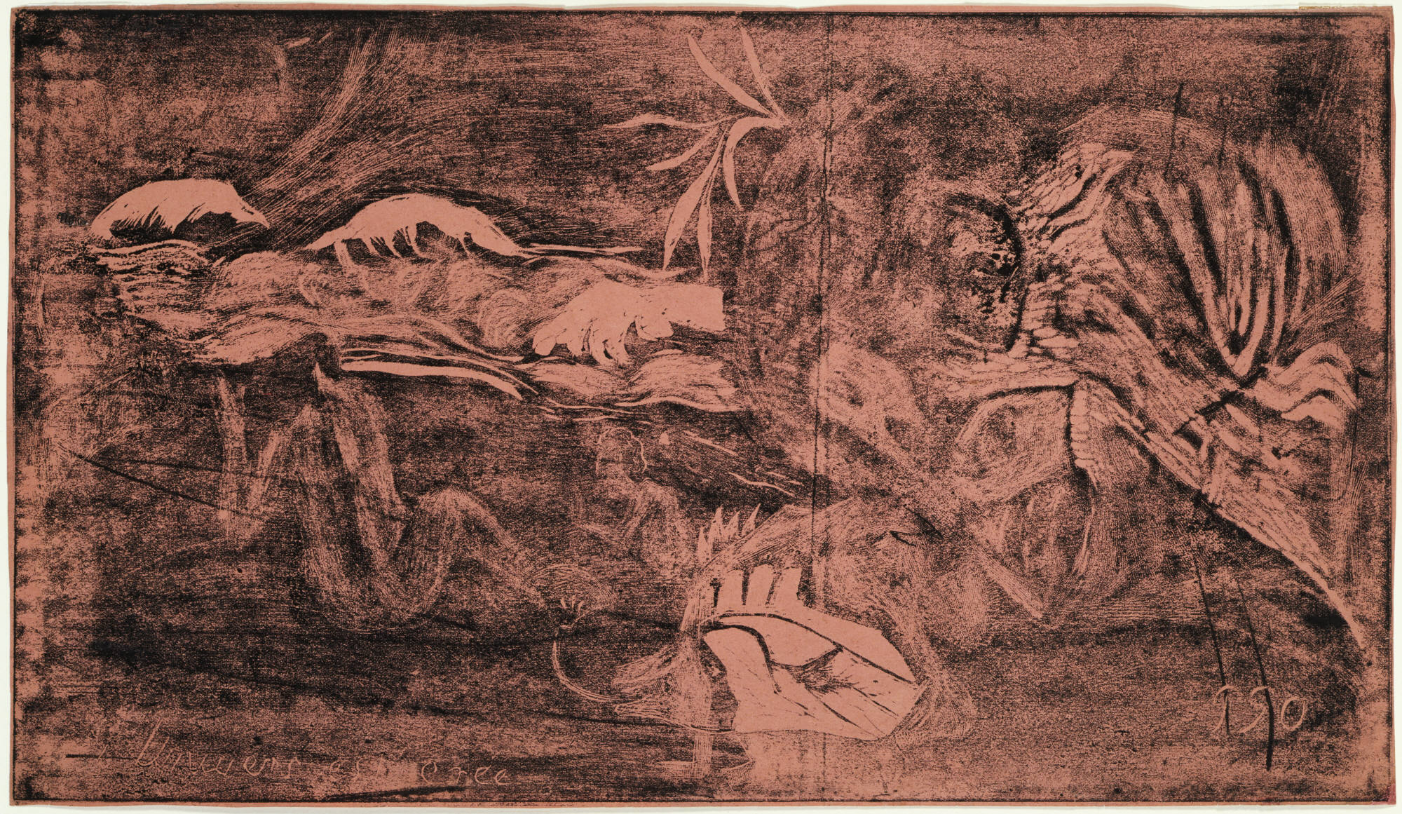 Paul Gauguin, French, 1848–1903 The Universe is Created (L'Univers est créé), from the Noa Noa suite, 1893–94 Woodcut printed in black on thin rose-colored wove paper sheet trimmed to block: 20.7 x 35.5 cm. (8 1/8 x 14 in.) Museum purchase, Laura P. Hall Memorial Fund 2005-116